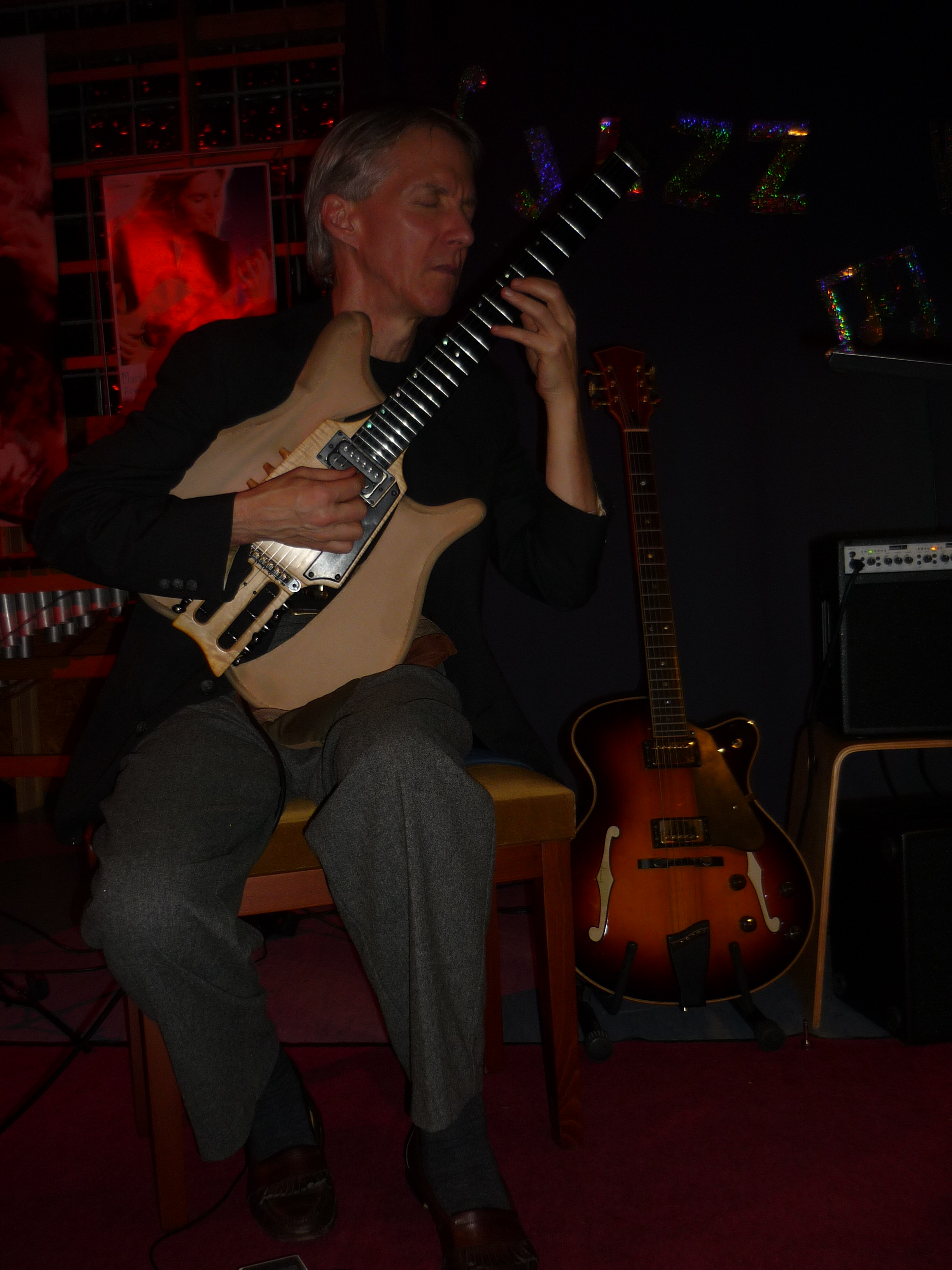 John Stowell, at an appearance at Jazz We Can in Bad Marienberg (Westerwald)